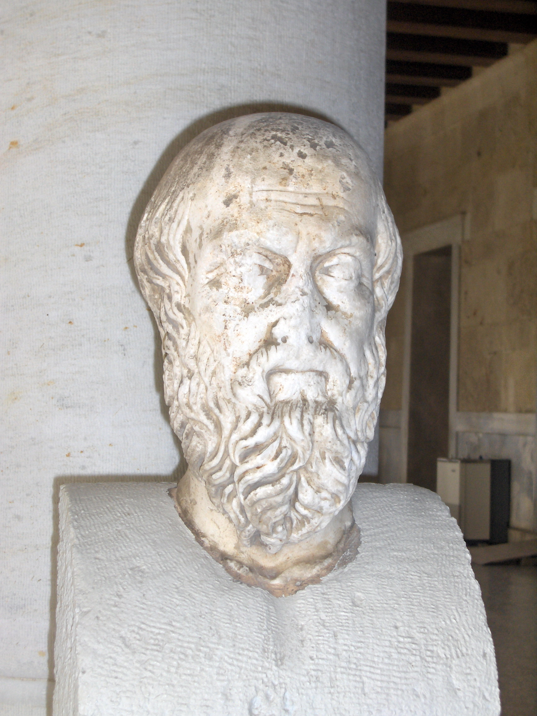 Bust of Herodotus. 2nd century AD. Roman copy after a Greek original. On display along the portico of the Stoa of Attalus, which houses the Ancient Agora Museum in Athens.